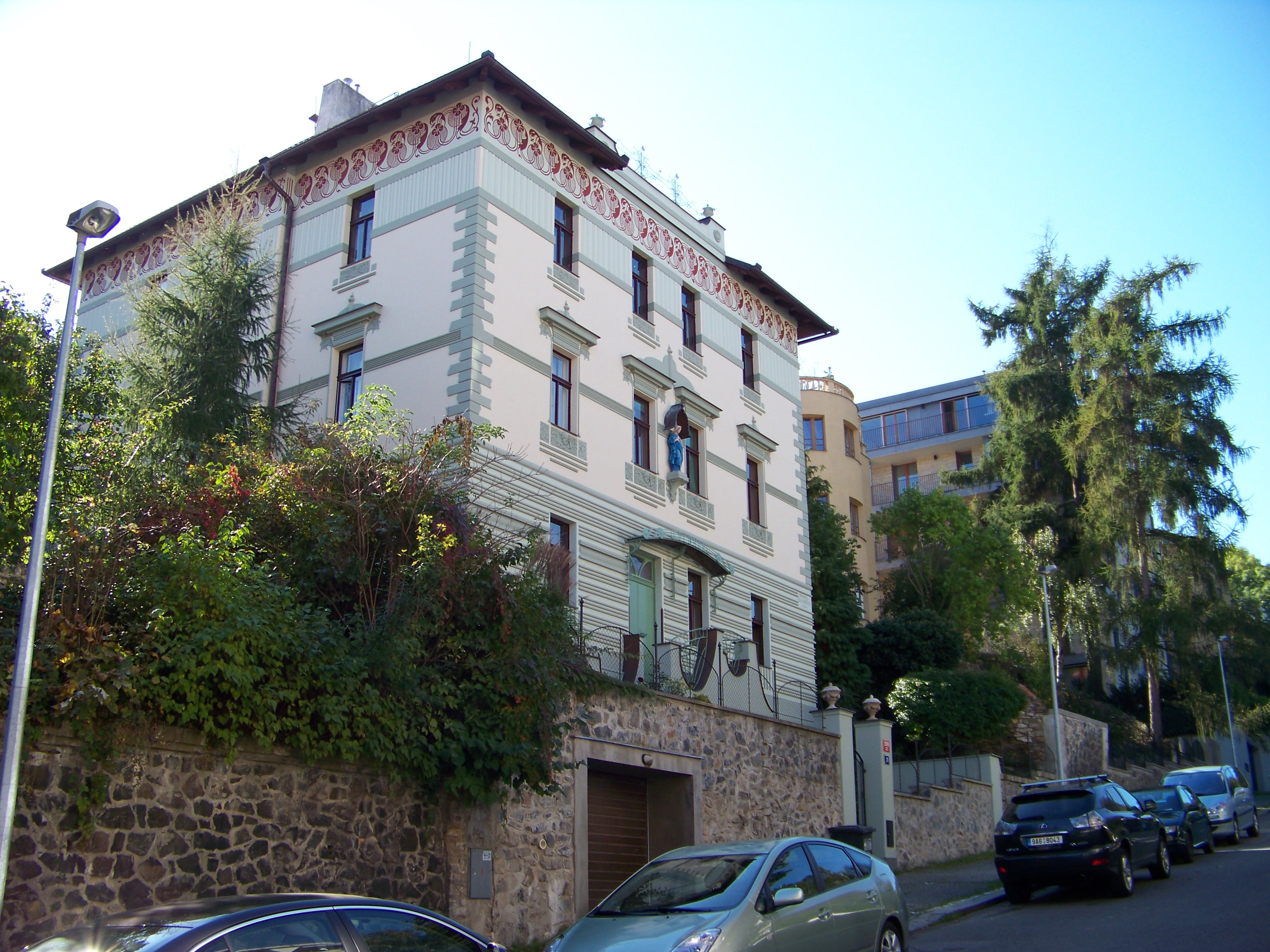 Prague-Smíchov, the Czech Republic. U Nikolajky 1088/31. - OpenStreetMap(Info)